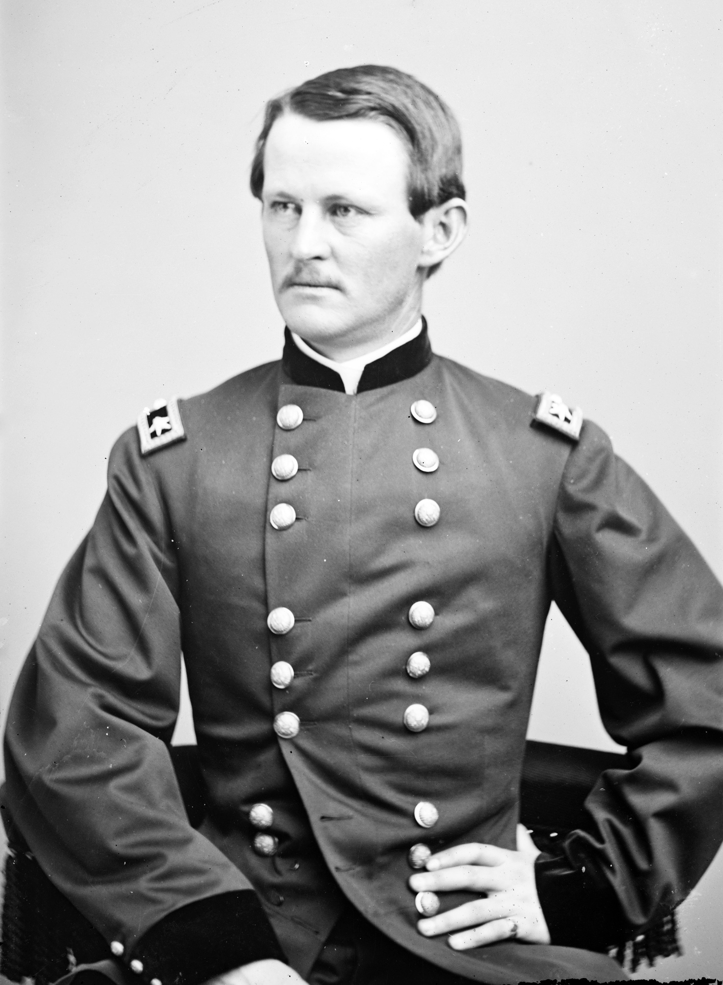 Gen. Wesley Merritt CALL NUMBER: LC-B813- 1865 A[P&P] REPRODUCTION NUMBER: LC-DIG-cwpb-05807 (b&w copy scan) No known restrictions on publication. MEDIUM: 1 negative : glass, wet collodion. CREATED/PUBLISHED: [between 1860 and 1870] NOTES: Title from unverified information on negative sleeve. Forms part of Brady Civil War Photograph Collection (Library of Congress). SUBJECTS: United States--History--Civil War, 1861-1865. FORMAT: Portrait photographs 1860-1870. Glass negatives 1860-1870. REPOSITORY: Library of Congress Prints and Photographs Division Washington, D.C. 20540 USA DIGITAL ID: (b&w scan) cwpb 05807